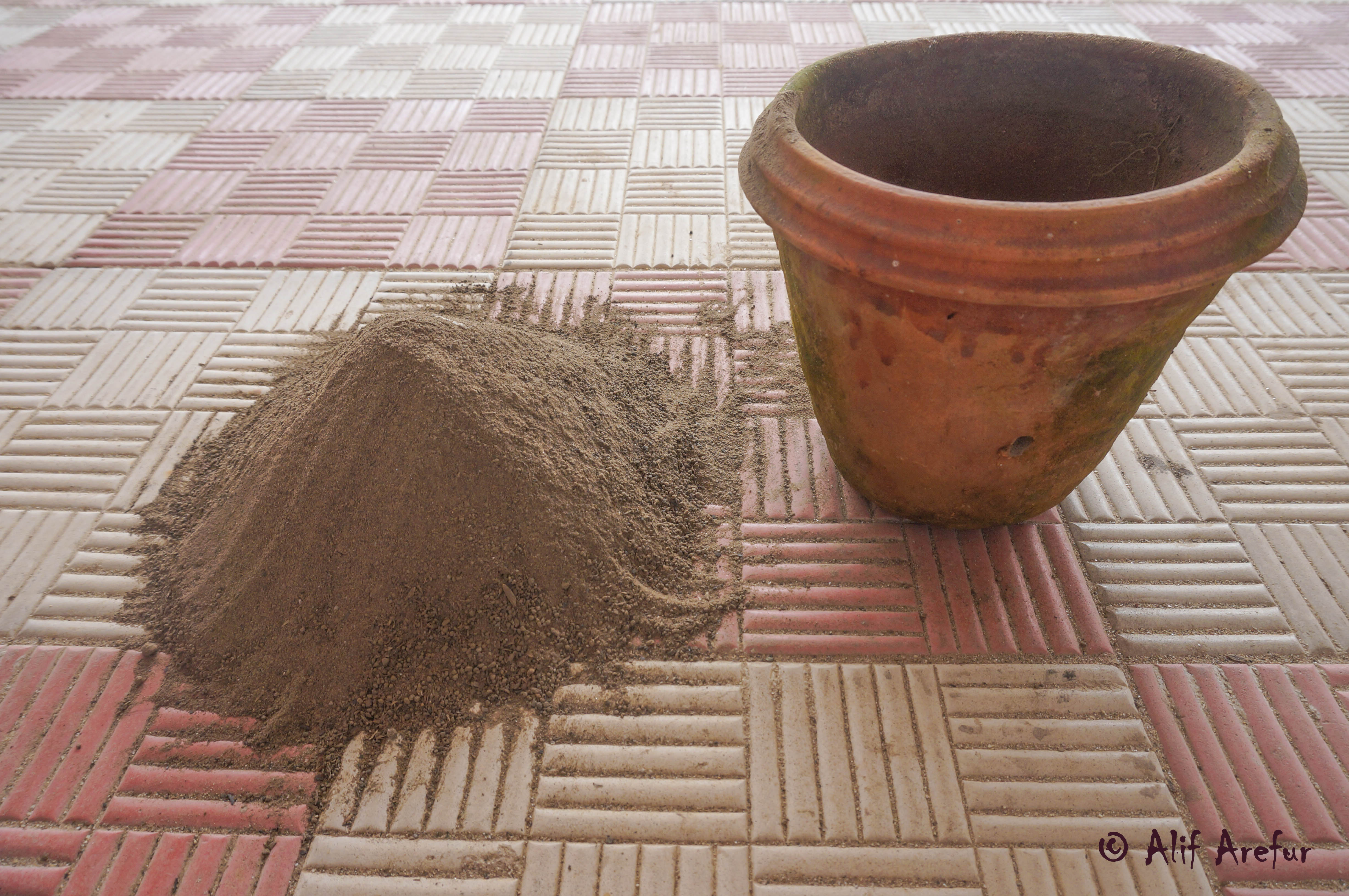 Sandy loam soil with compost fertiliser for avocado seedling at Malik's Farm